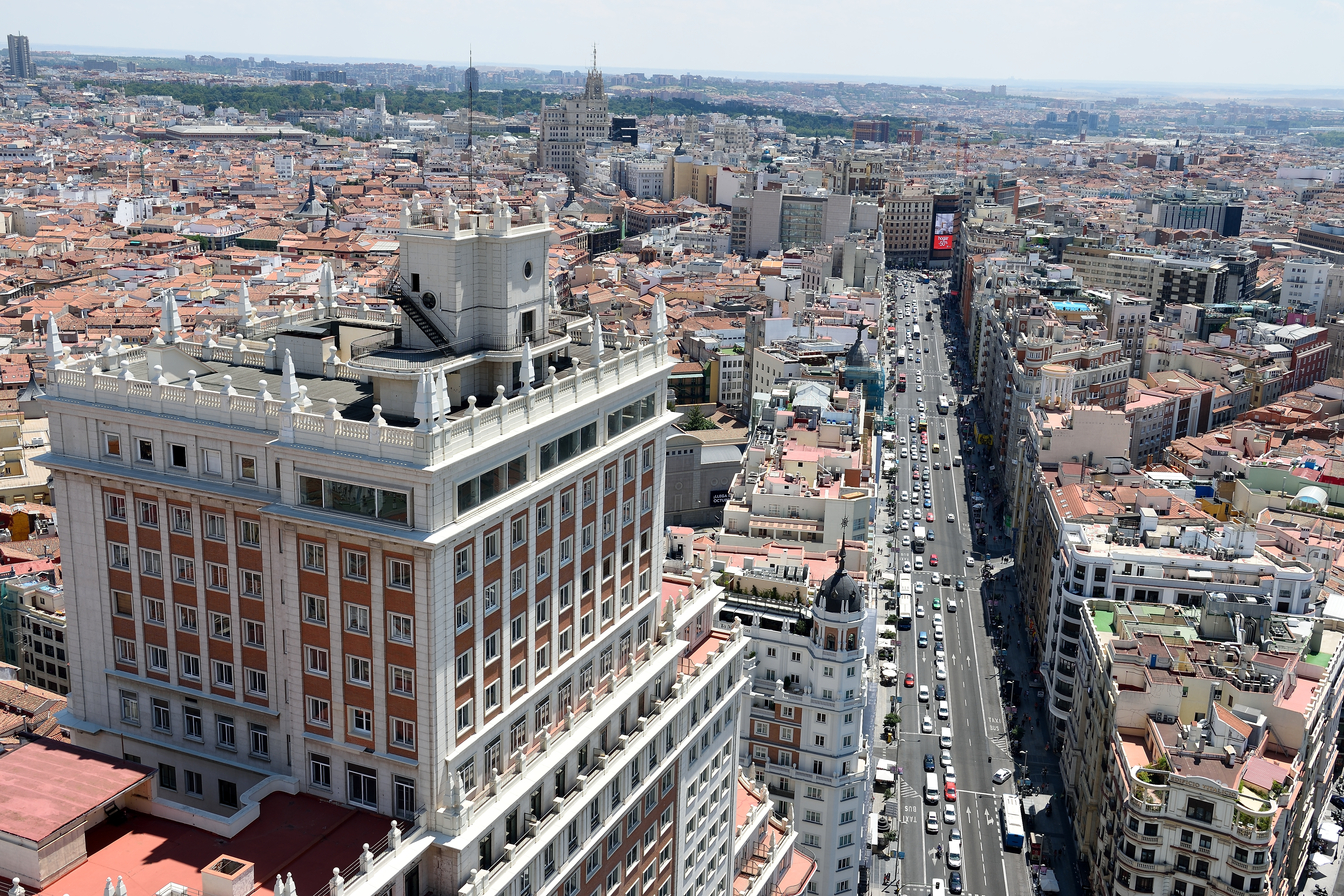 Edificio España and Gran Via in Madrid